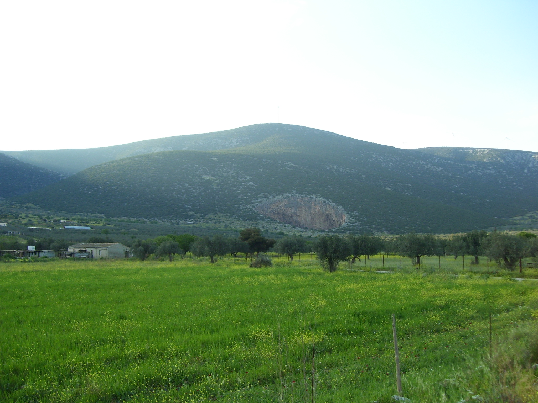 Big Cave in Didyma, Argolida